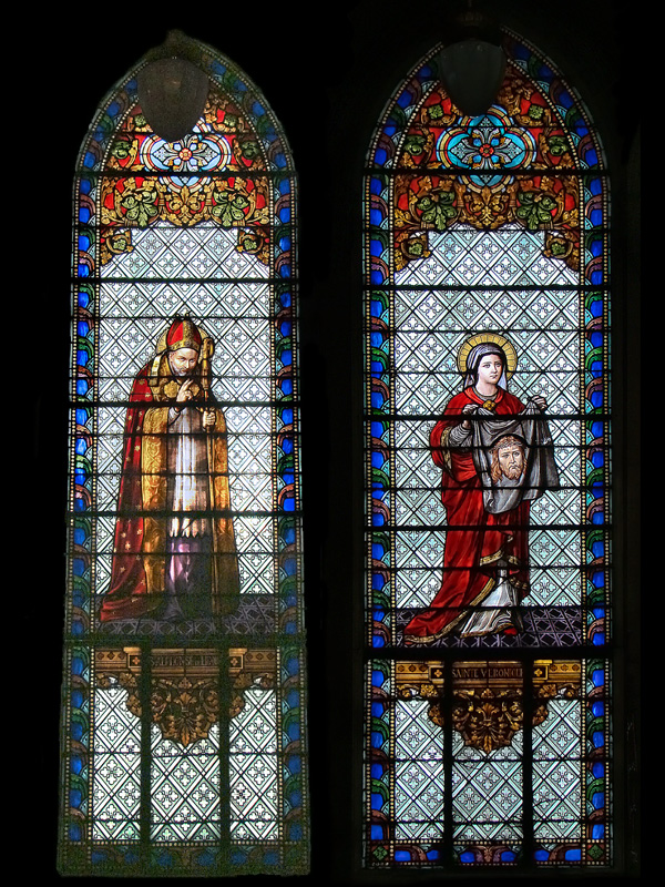 Church of Saint Peter the Apostle, Montreal, Quebec, Canada. Two stained glass windows in the lateral naves, installed around 1883. On the left Saint Alphonsus Liguori, on the right Saint Veronica.